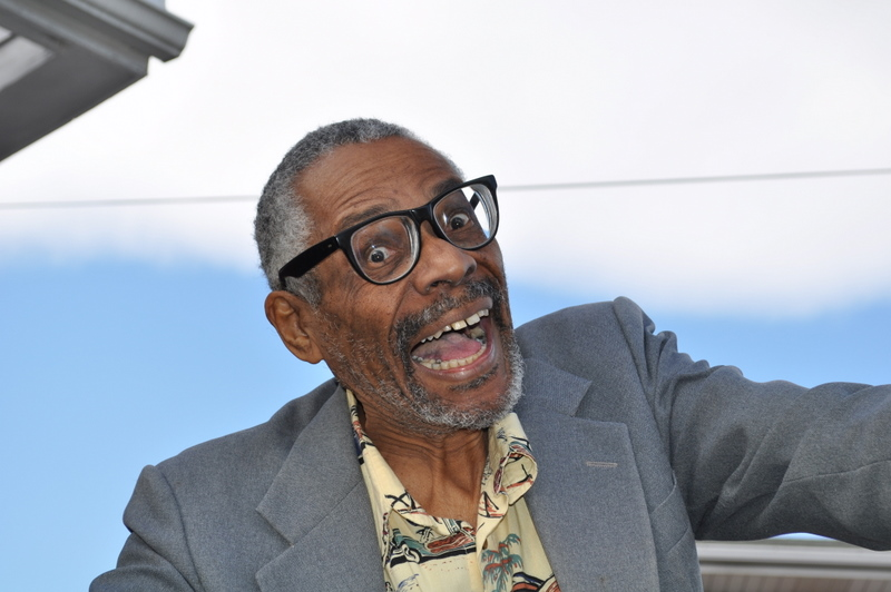 Photograph of Andrew White taken by Marc Minsker in Mr. White's front yard.